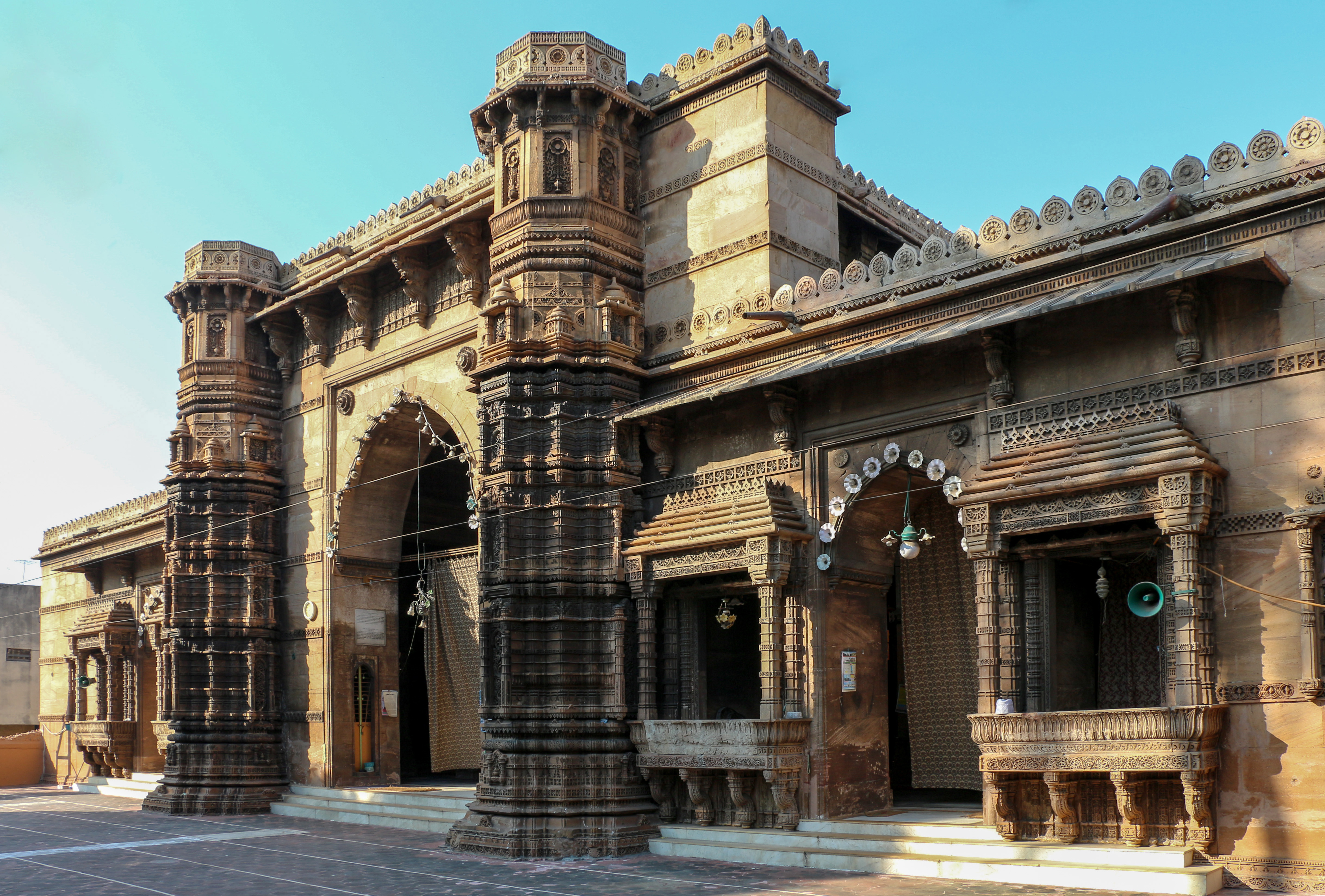 Rani Rupavati's Mosque (circa 1510), Ahmedabad, India